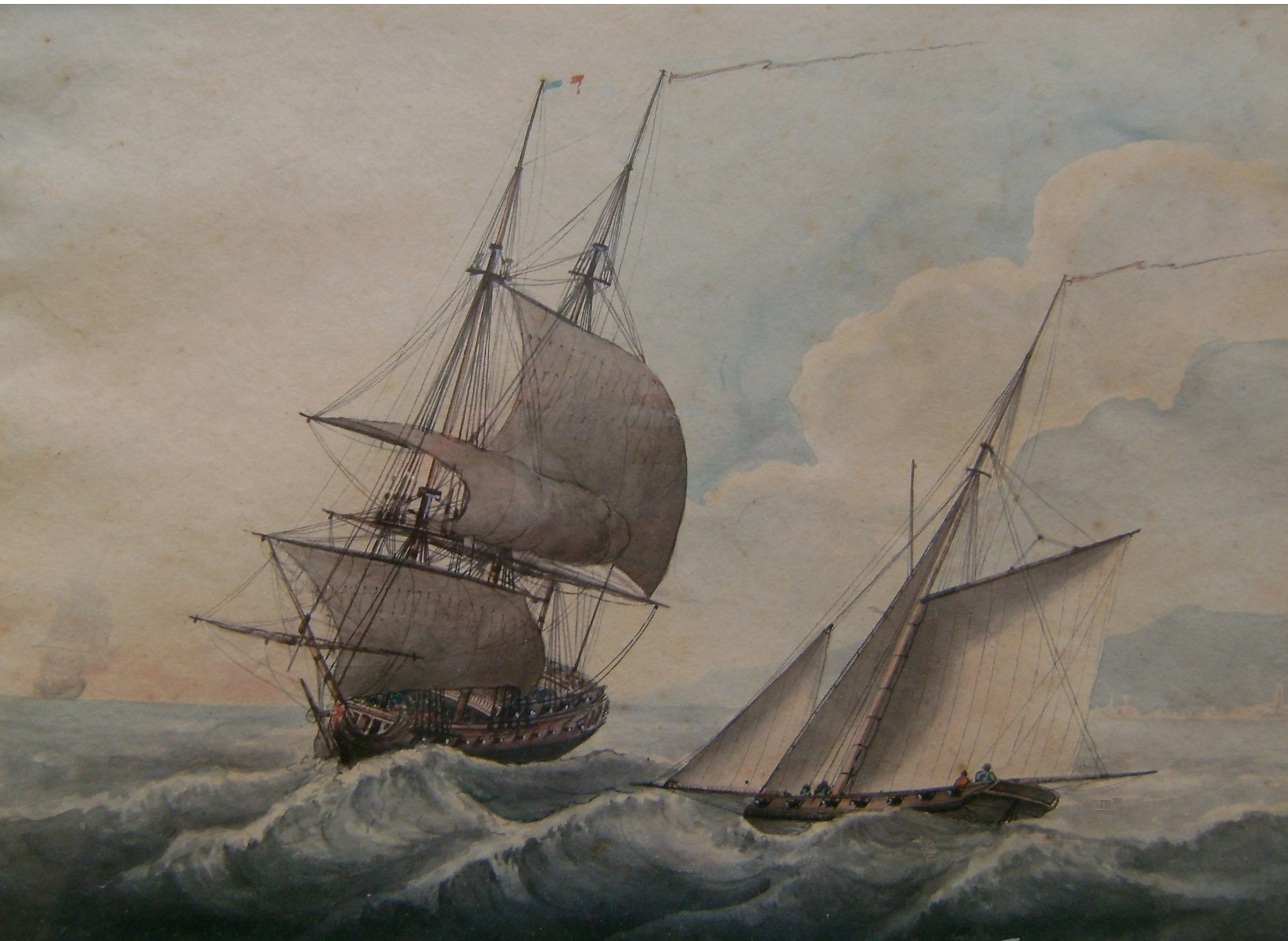 "Frigate in a swell" by Samuel Atkins (active 1787-1808).